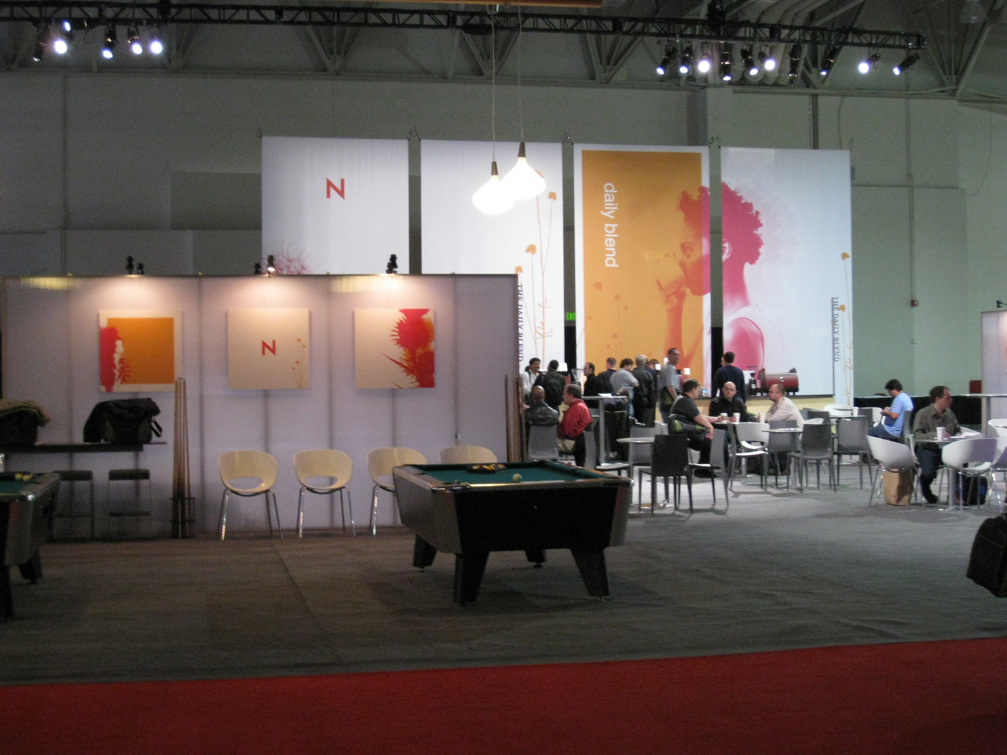 A coffee break and relaxation area set up for attendees of the Novell BrainShare 2008 conference at the Salt Palace in Salt Lake City, Utah.